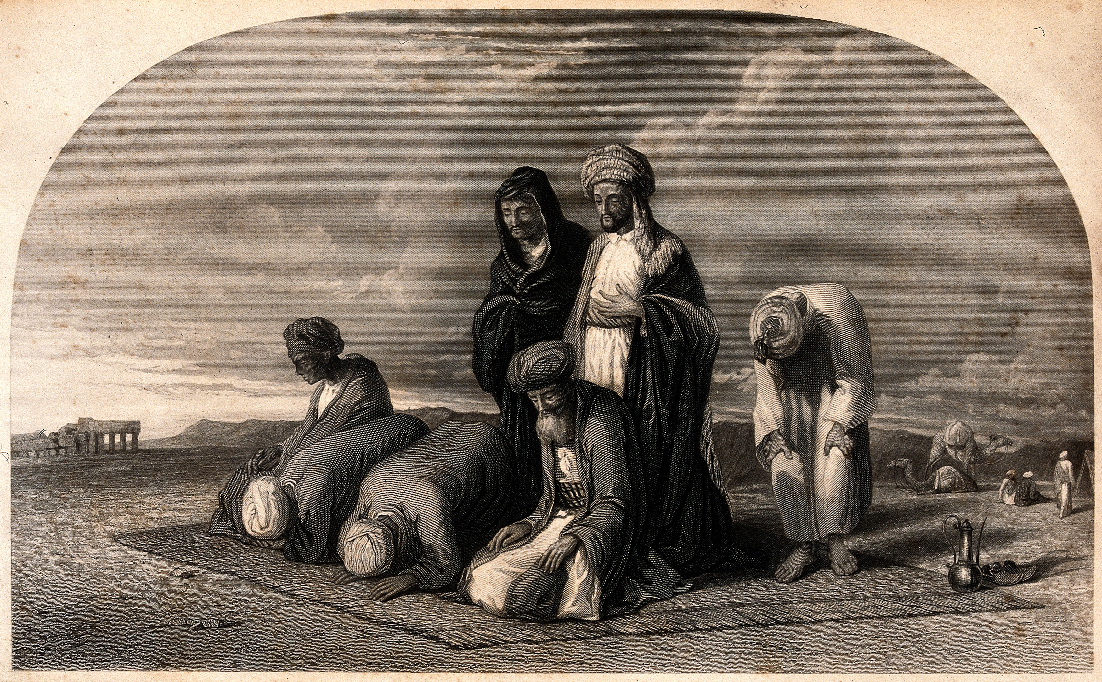 Muslims praying to Mecca. Engraving. Iconographic Collections